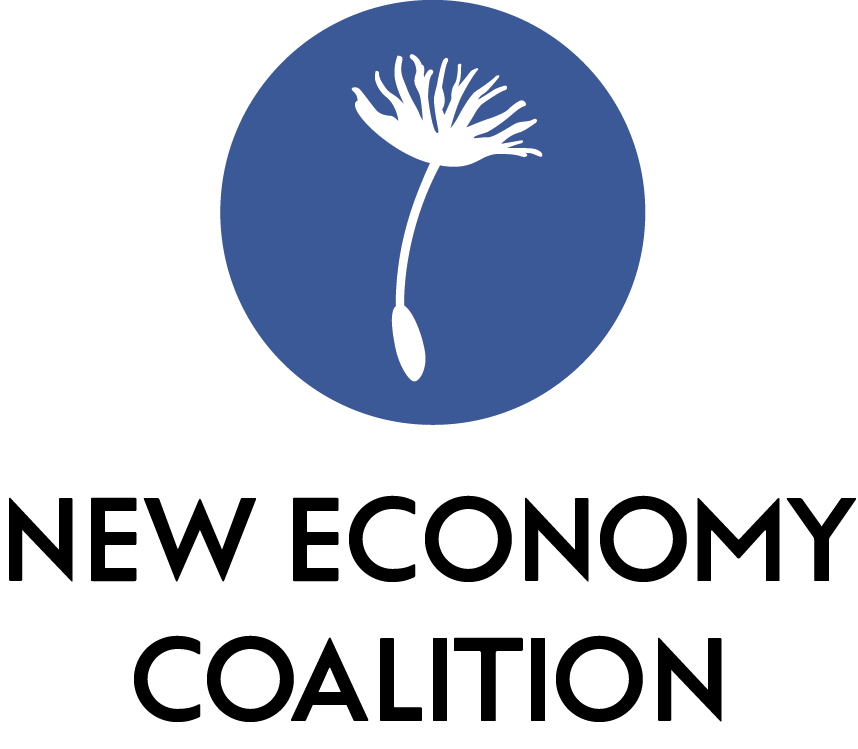 This is the logo of the New Economy Coalition